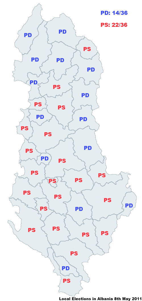 Results of the local elections in Albania 2011 by district capitals, blue: Democratic Party; red: Socialist Party